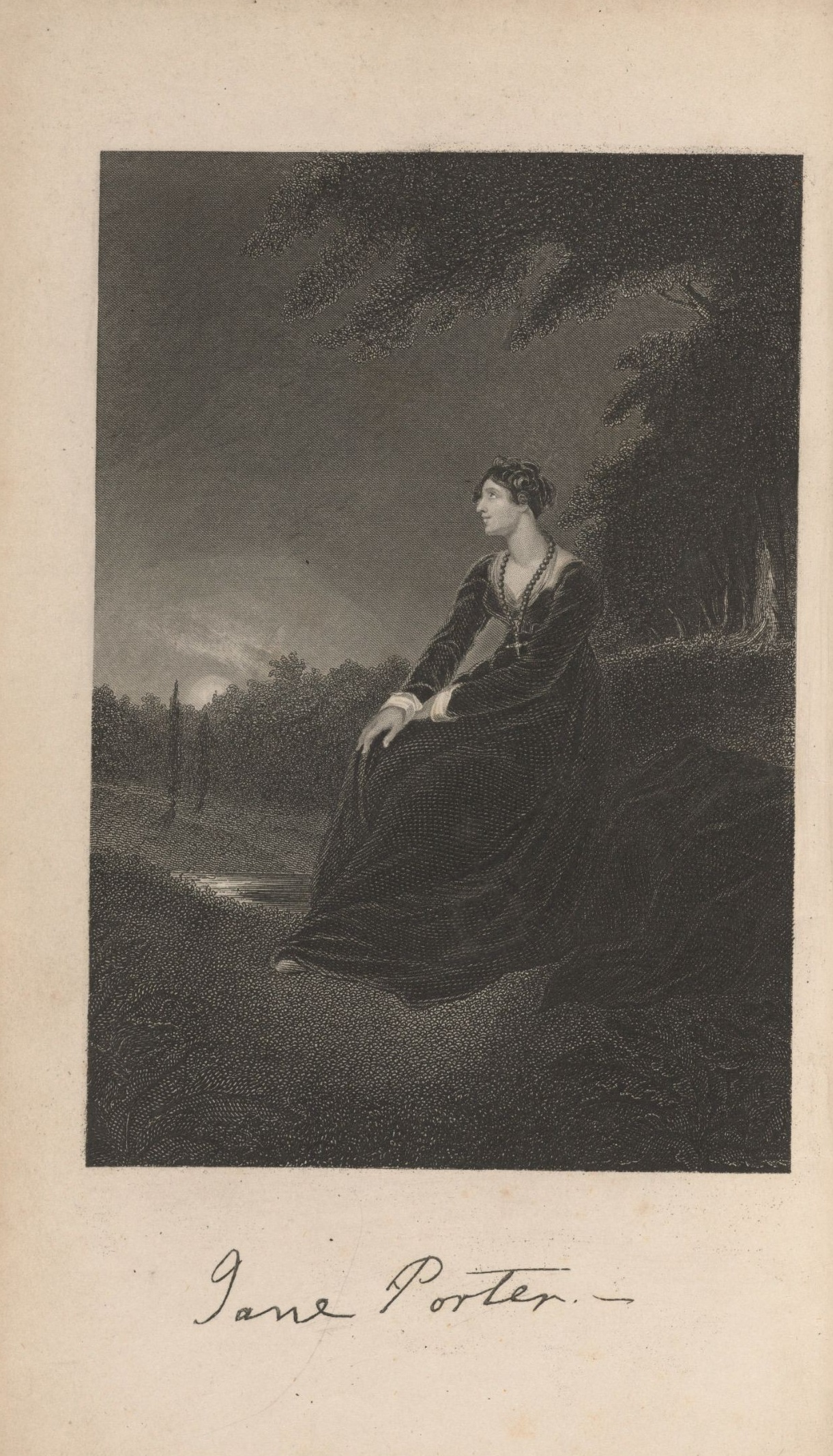 Frontispiece featuring an engraving of the author, from. The pastor’s fire-side: a biographical romance, London: George Virtue, 1846. *EC8 P8343 817pc, Houghton Library, Harvard University